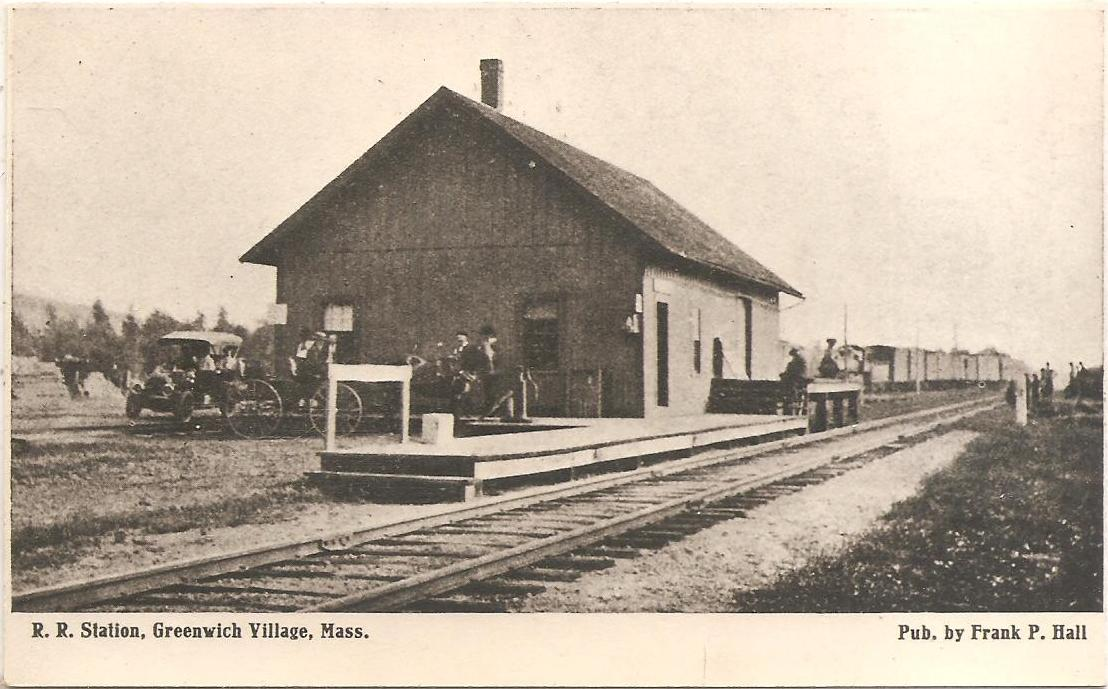 Early divided back postcard of Greenwich Village station